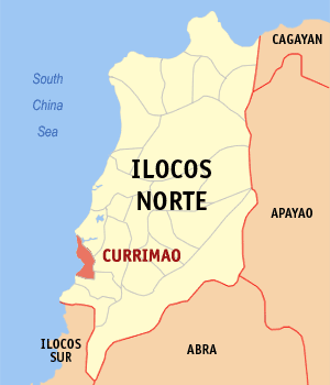 Map of Ilocos Norte showing the location of Currimao